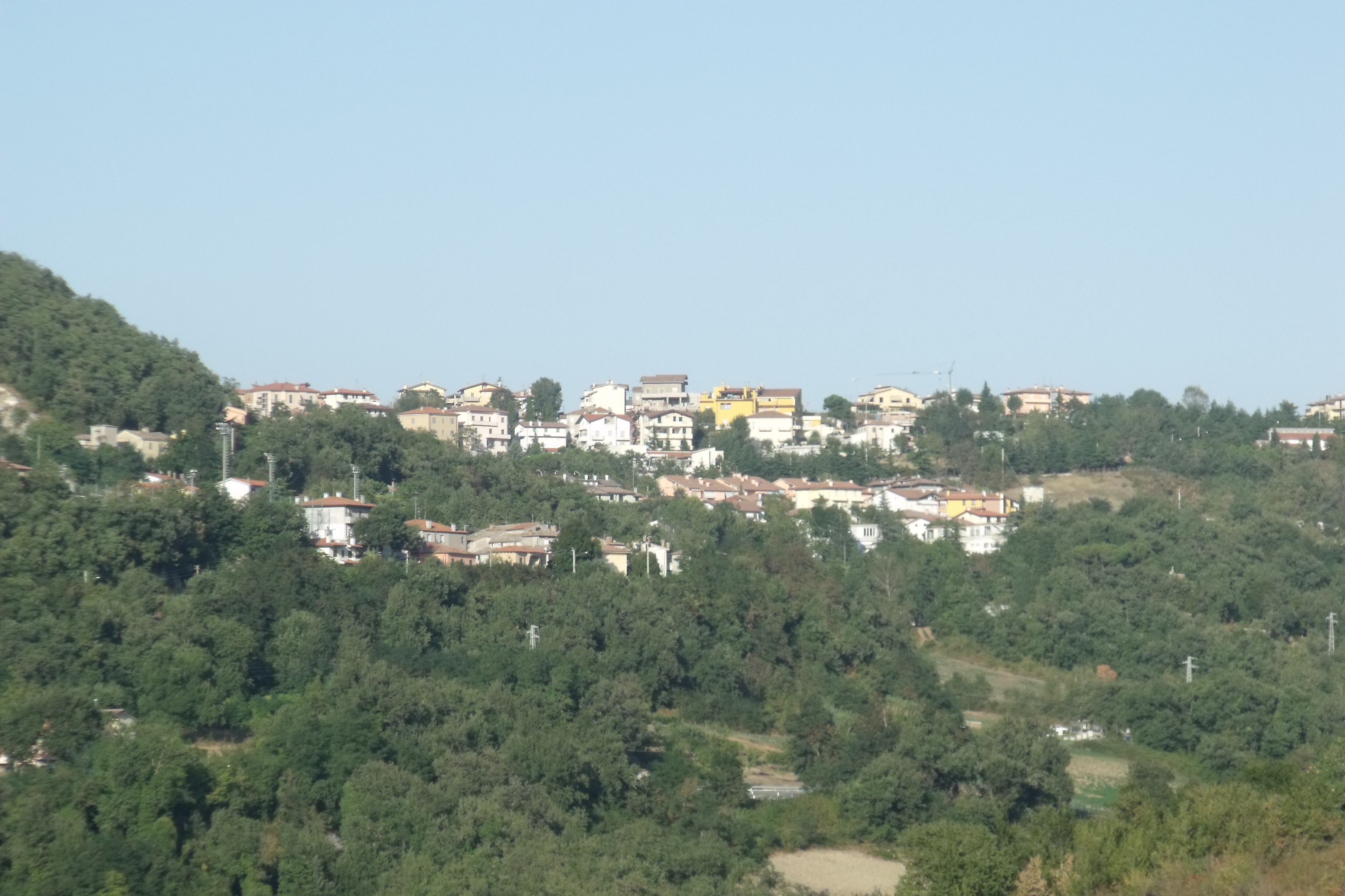 Panorama of Fiorentino, Municipality of San Marino